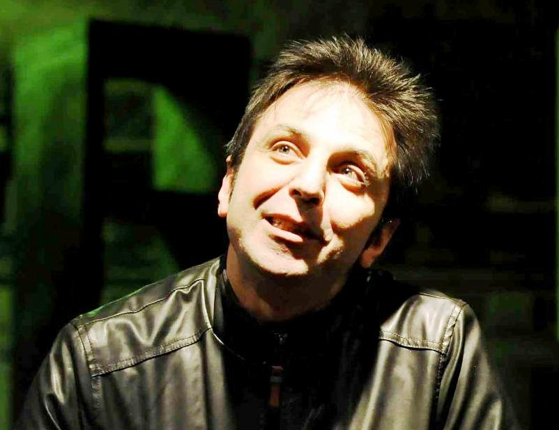 Christian Di Domenico